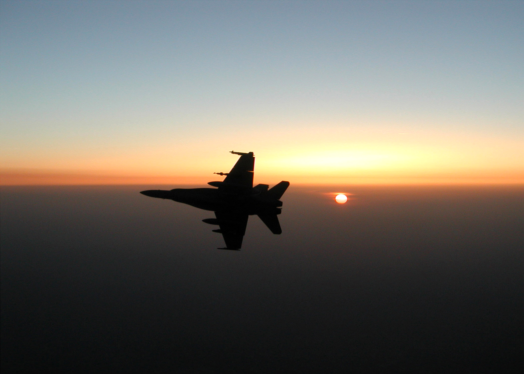 Carrier Air Wing Seven (CVW-7)Apr. 20, 2002 -- An F/A-18C “Hornet” assigned to the "Wildcats" of Strike Fighter Squadron One Three One (VFA-131) banks right to return to the U.S. Navy aircraft carrier USS John F. Kennedy (CV 67) at the end of a combat mission over Afghanistan. Kennedy and her embarked Carrier Air Wing Seven (CVW-7) are deployed in support of Operation Enduring Freedom. U.S. Navy photo by Capt. William E. Gortney. (RELEASED)